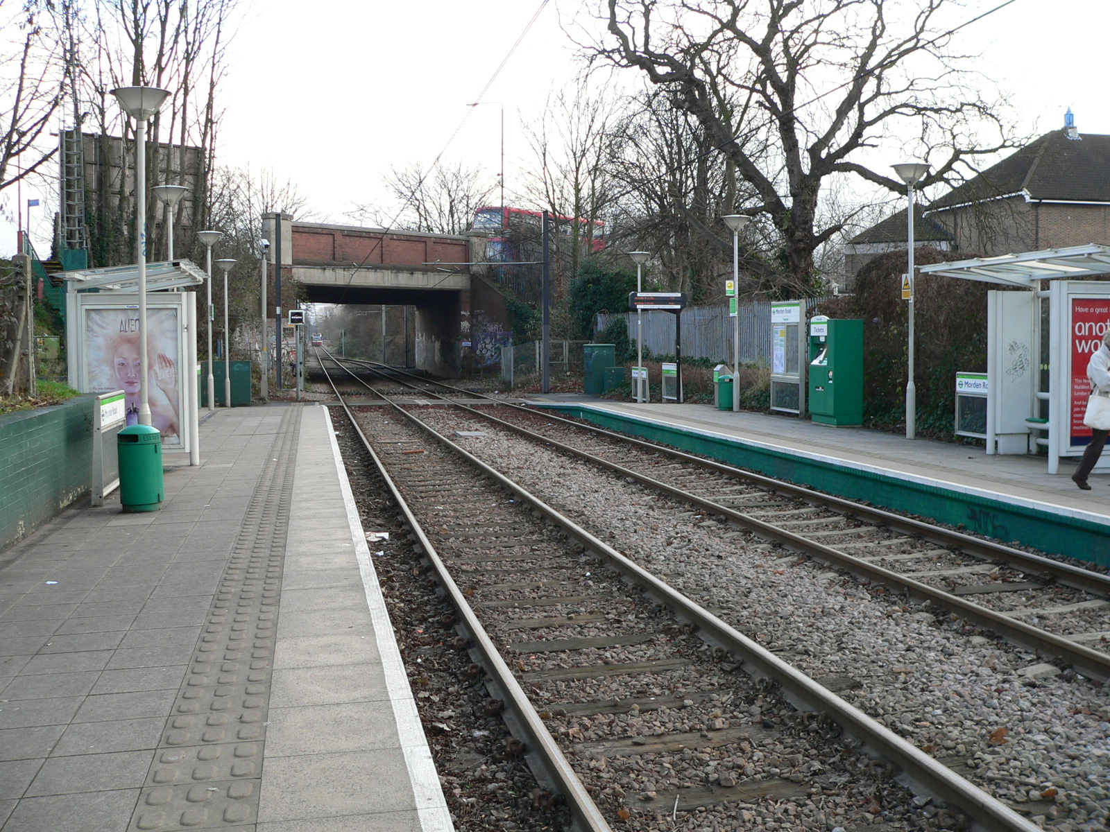 Morden Road Tramlink station, looking east towards Phipps Bridge stop. This section is built on the former Wimbledon to West Croydon mainline railway.